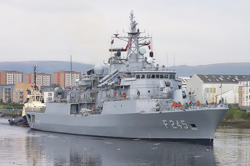 TCG Orucreis arrives for a weekend in Glasgow prior to exercise JW112